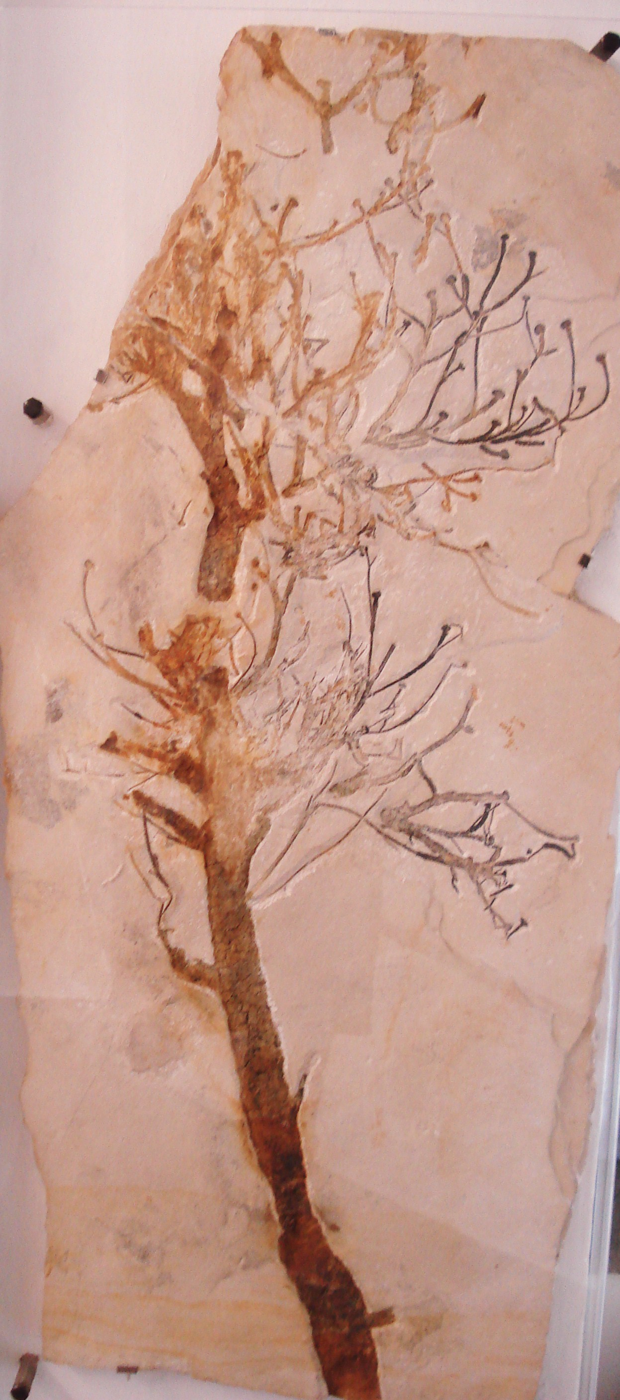 fossil of brachyphyllum